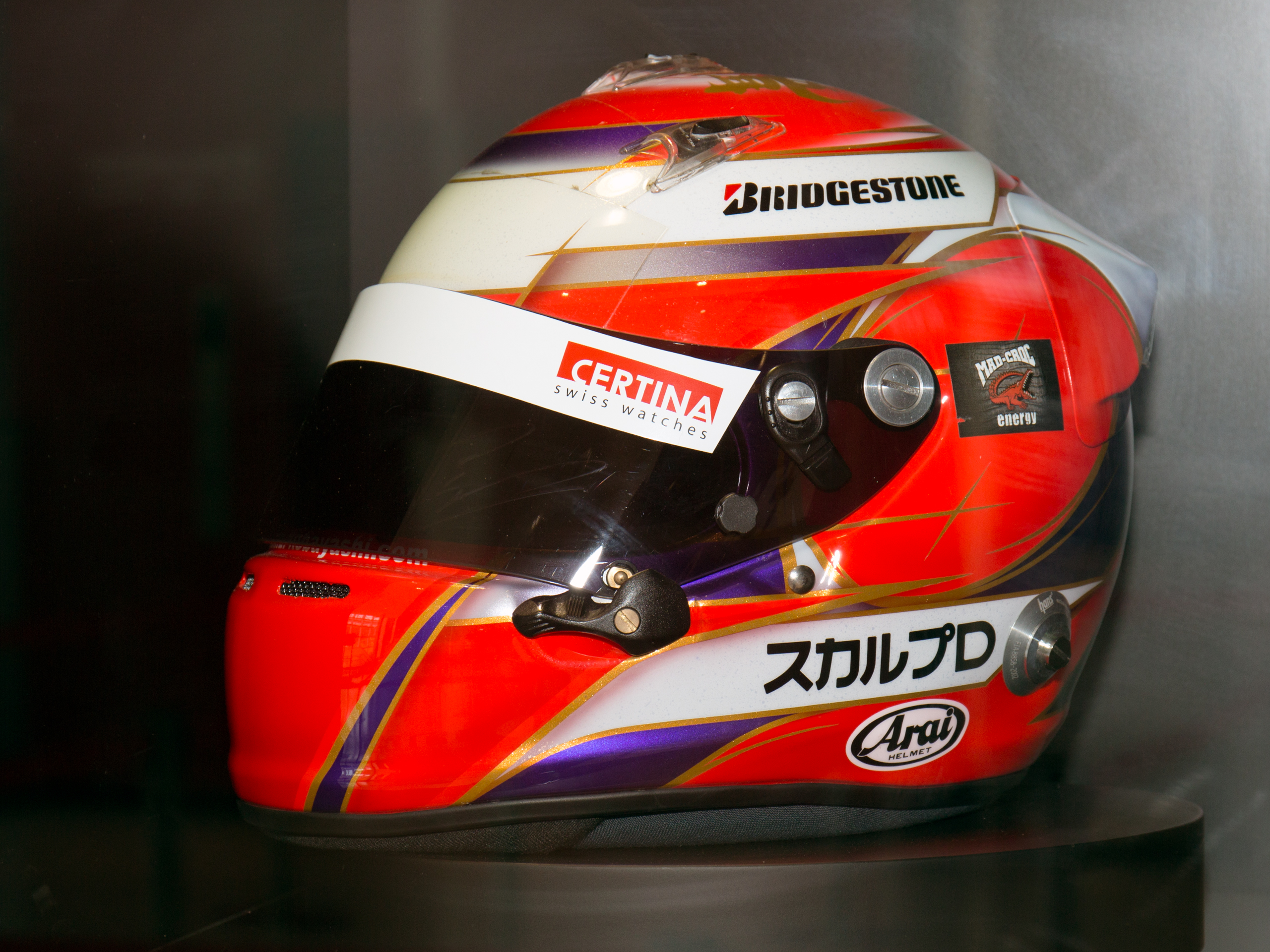 Kamui Kobayashi's 2010 helmet